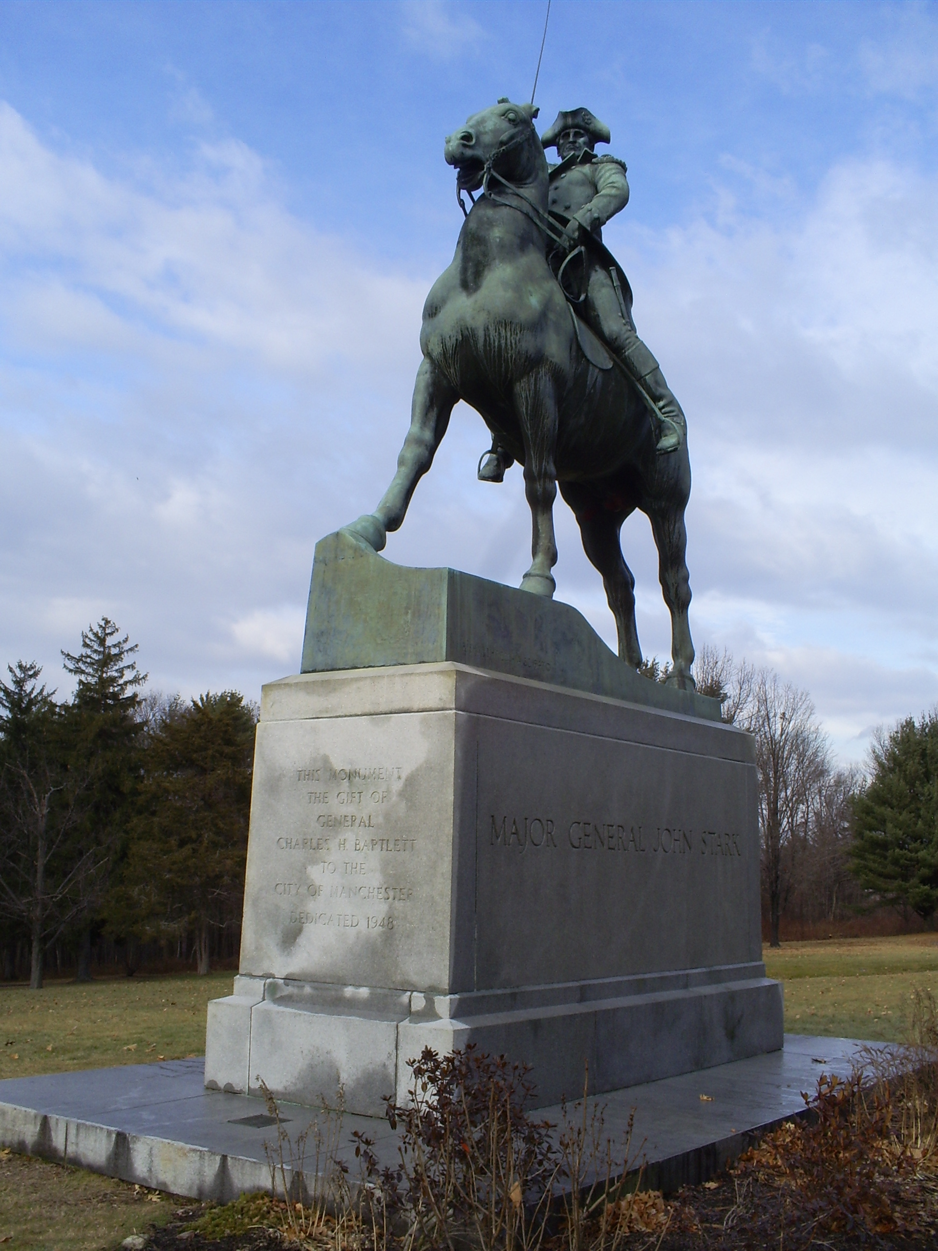 Photo by Craig Michaud.This is at Stark Park in Manchester, New Hampshire.About one hundred yards down the road from this park is the site of John's birthplace.